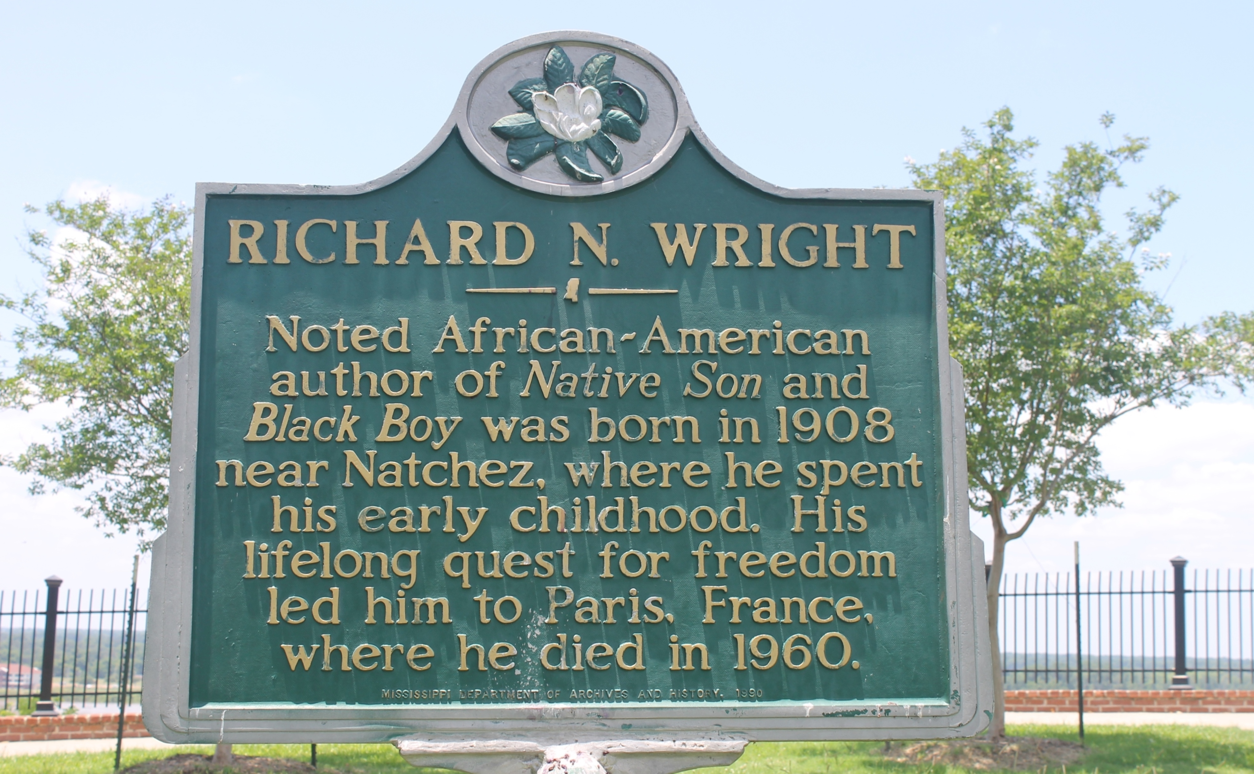 Richard Wright historical marker in Natchez, MS